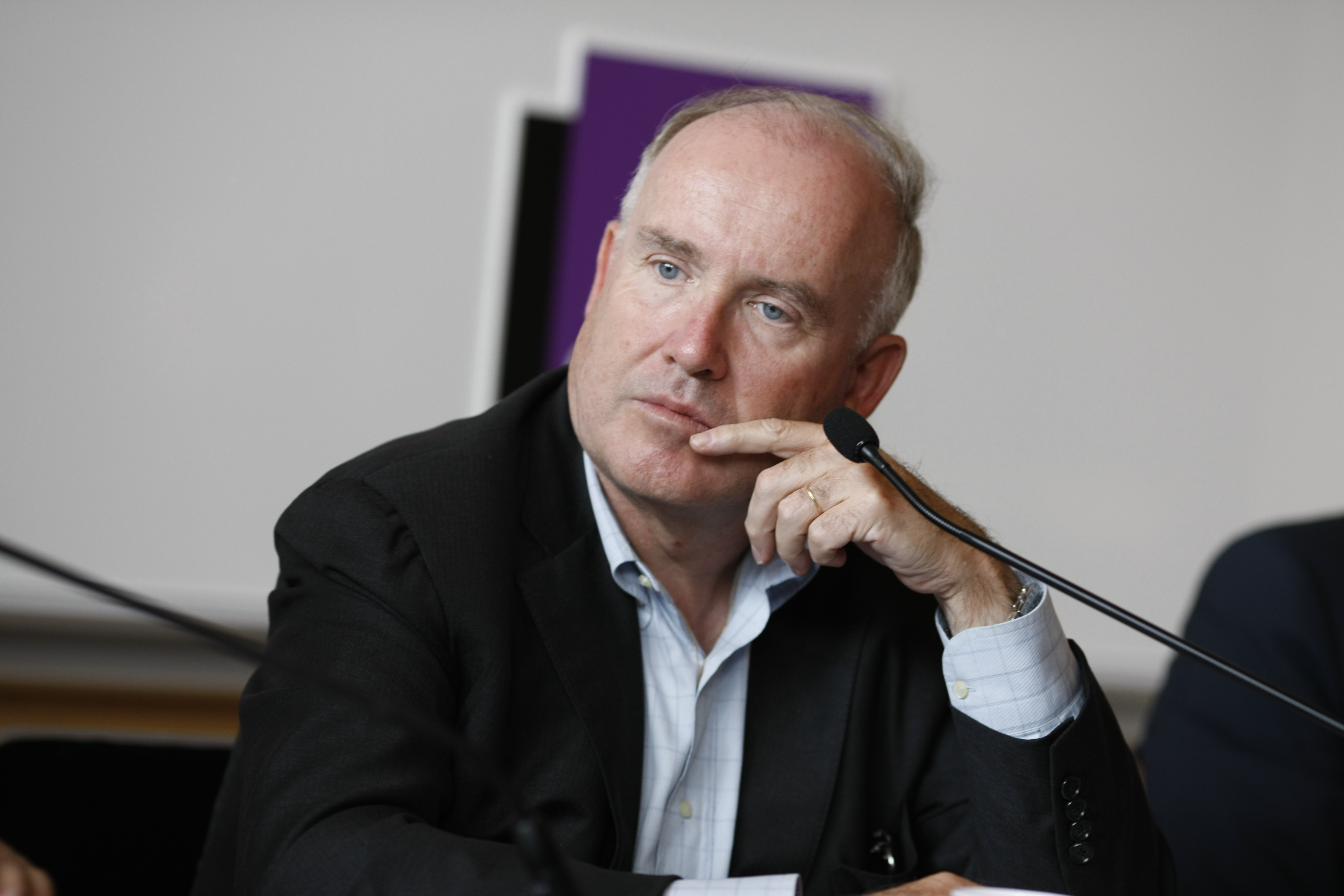 Dominique Bussereau on 3 September 2009 in the MEDEF Summer University